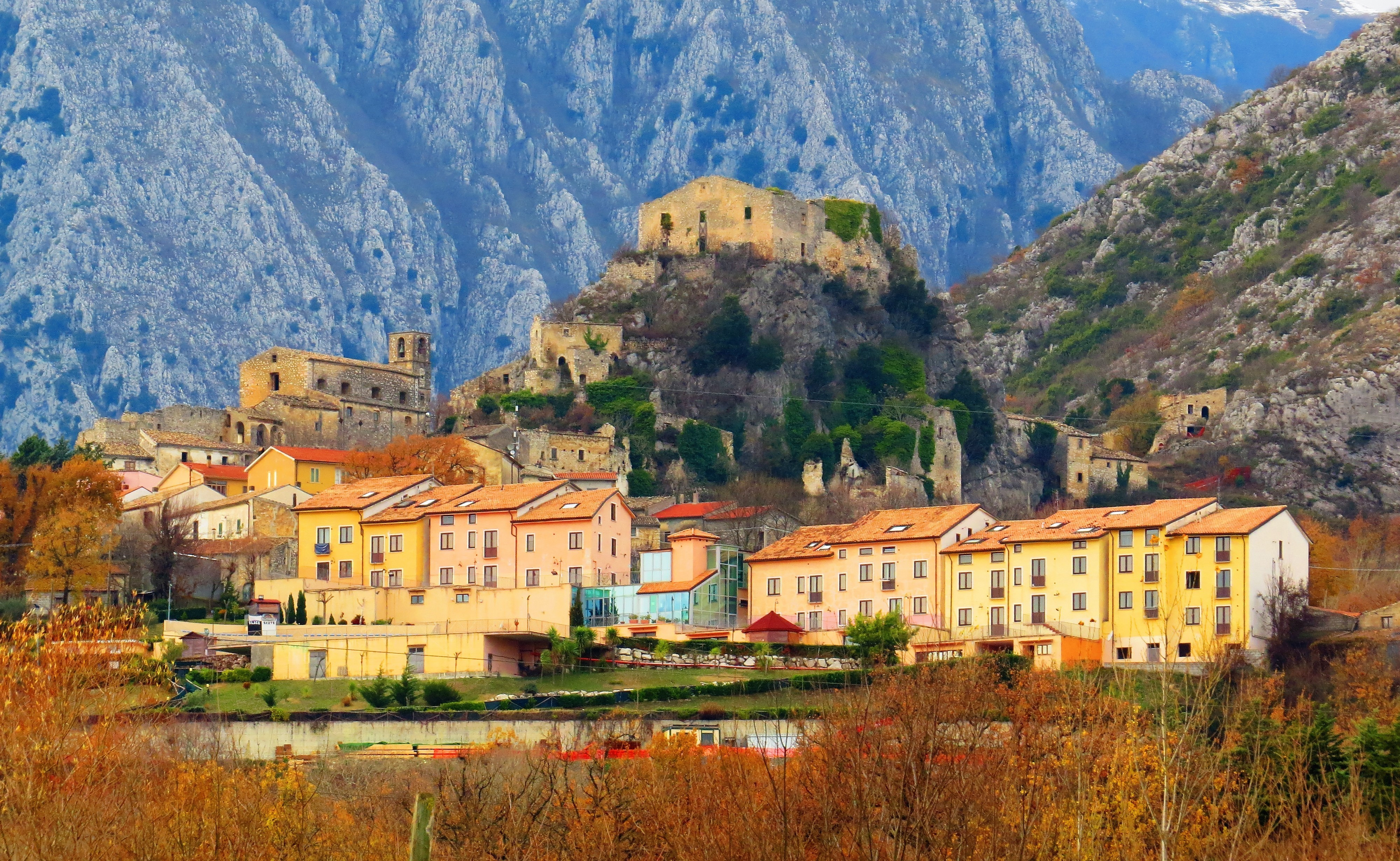 Rocchetta